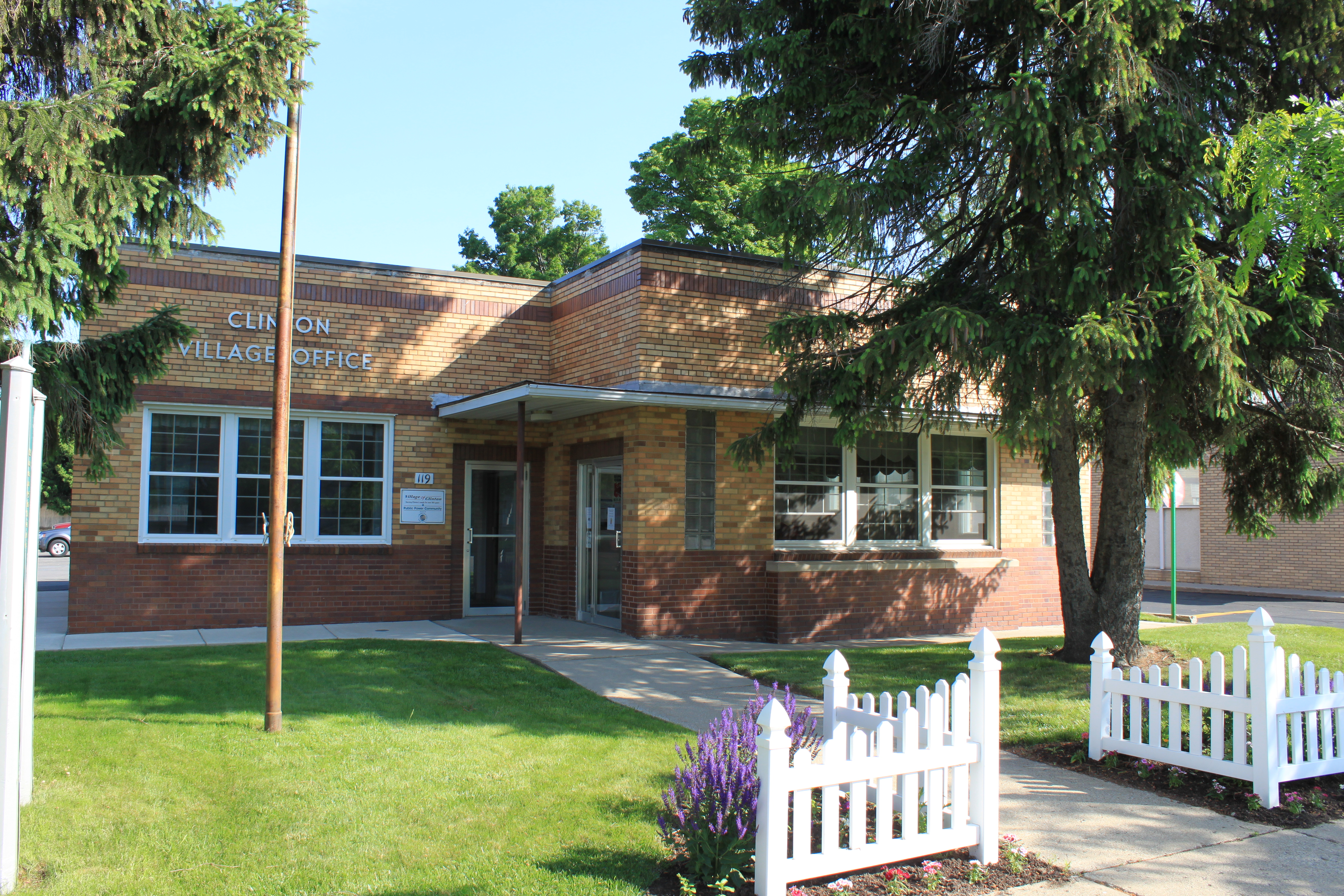 Clinton Michigan Village Office, 119 East Michigan Avenue.